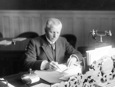 Otto Bahr Halvorsen 1921. Prime Minister of Norway 1920-1921 and 1923